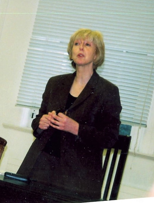 Ursula Masson speaking at an International Women's Day Event organised by Women's Archive Wales, The Old Library, Cardiff. She was introducing Glenys Kinnock.